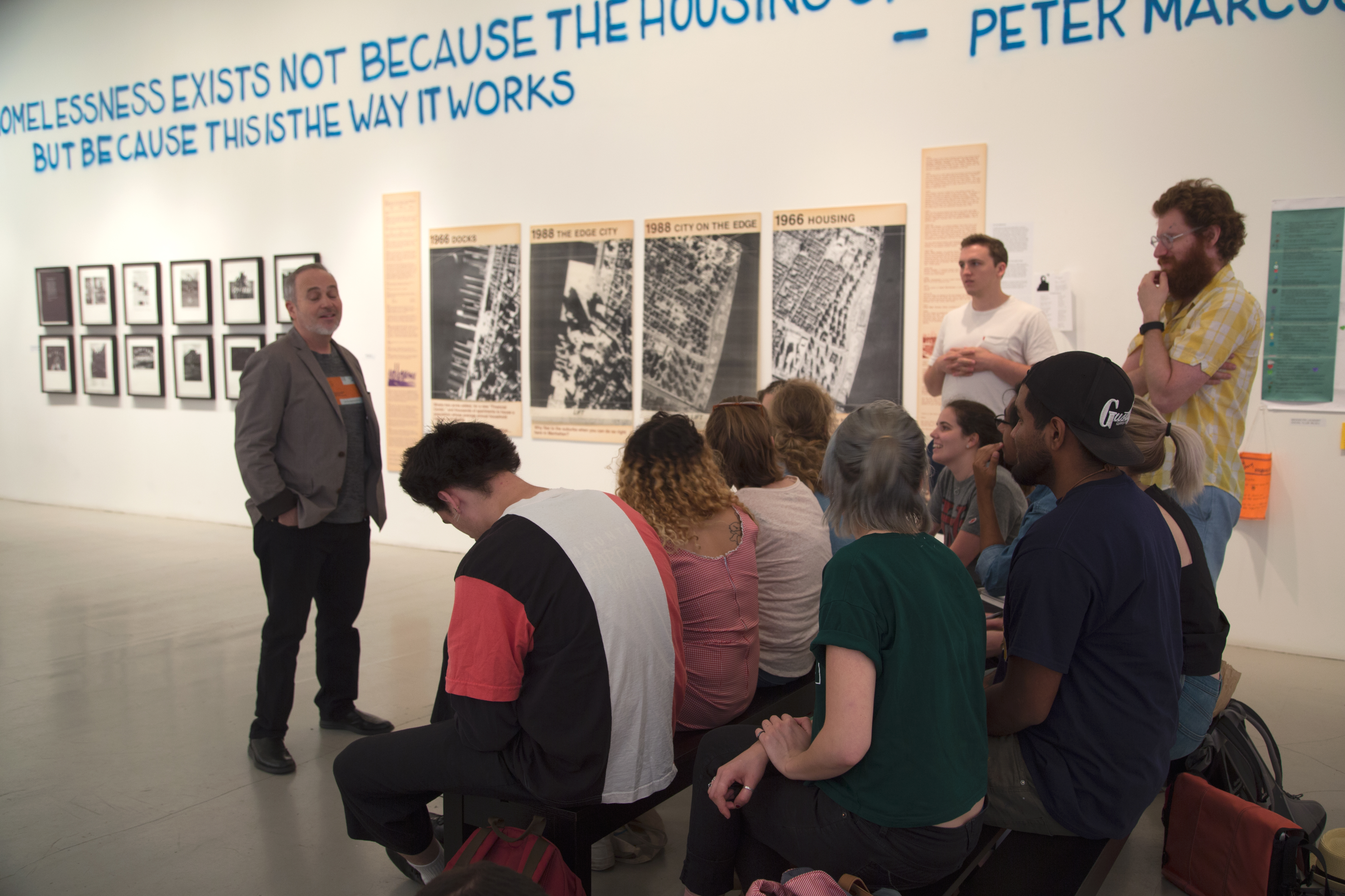 NYAP visited Martha Rosler's "If you can afford to live here, mo-o-ove!!" exhibition.